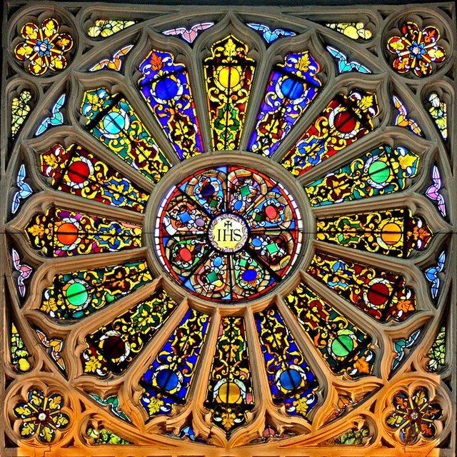 St Katharine Cree, Leadenhall Street, London EC3 - Rose window, near to Shoreditch, Islington, Great Britain.